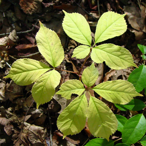 Panax quinquefolius L. - American ginseng